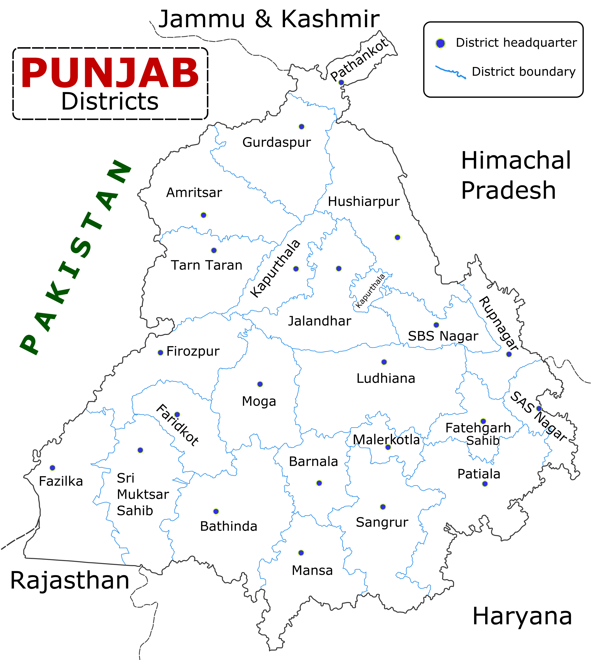 State of Punjab (Indian Punjab) with districts marked along with district Headquarters.